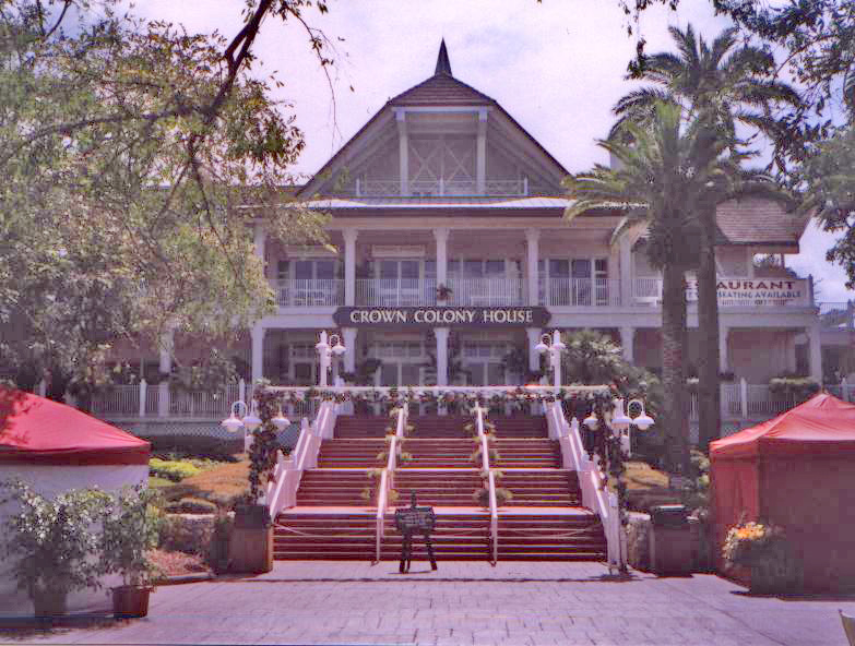 Crown Colony House at Busch Gardens Africa in Tampa Camera Information Camera used: Canon SureShot 80Tele